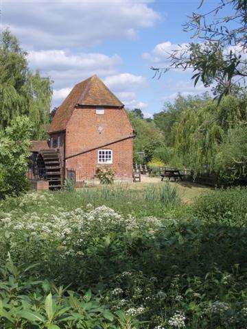 Cobham Mill photographed in June 2005. This is the Grade II listed building in Cobham,_Surrey, England.